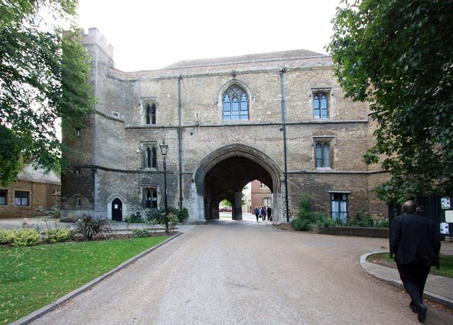 Walpole Gate or The Porta